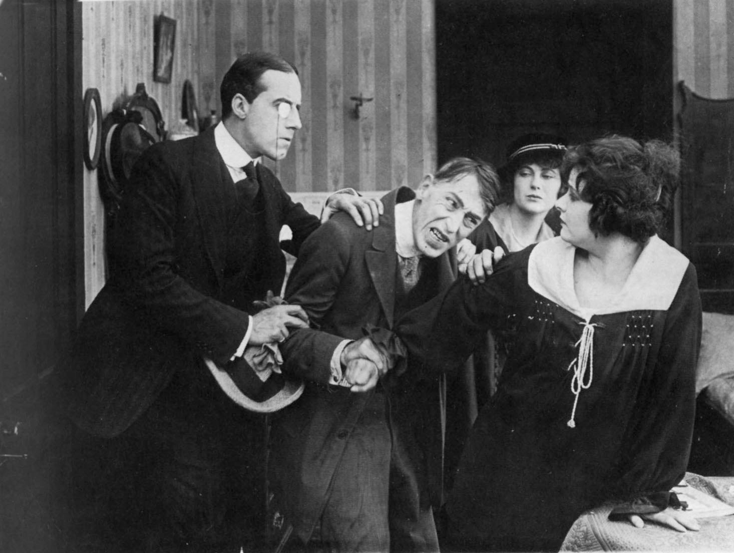 The Devil's Needle is a 1916 silent film drama directed by Chester Withey. A scene from the film. Left to right: Howard Gaye, Tully Marshall, Marguerite Marsh, and Norma Talmadge.